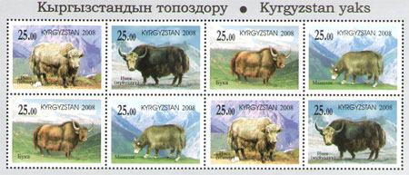 Stamp of Kyrgyzstan